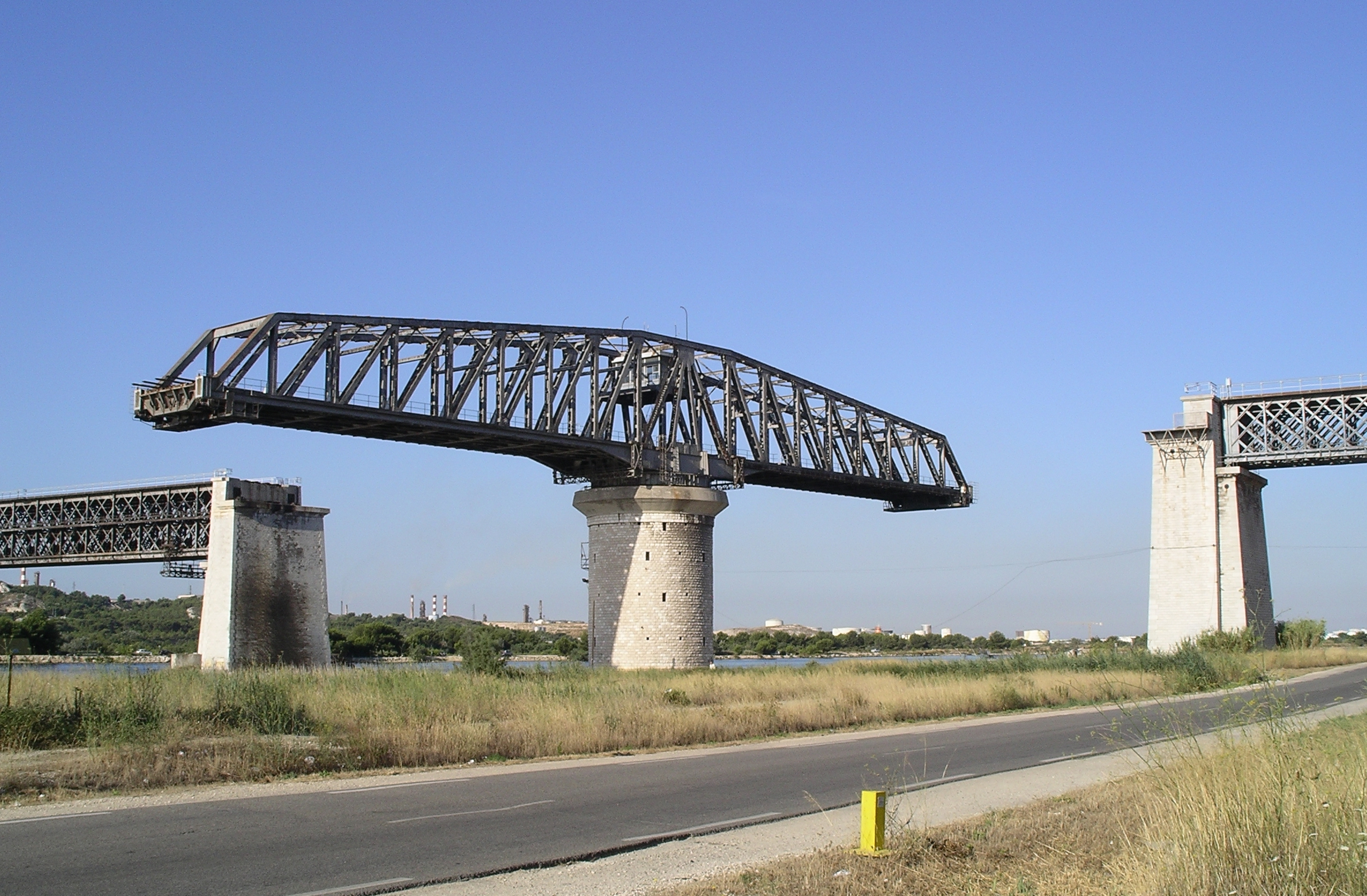 Caronte railway swing bridge in Martigues (France)